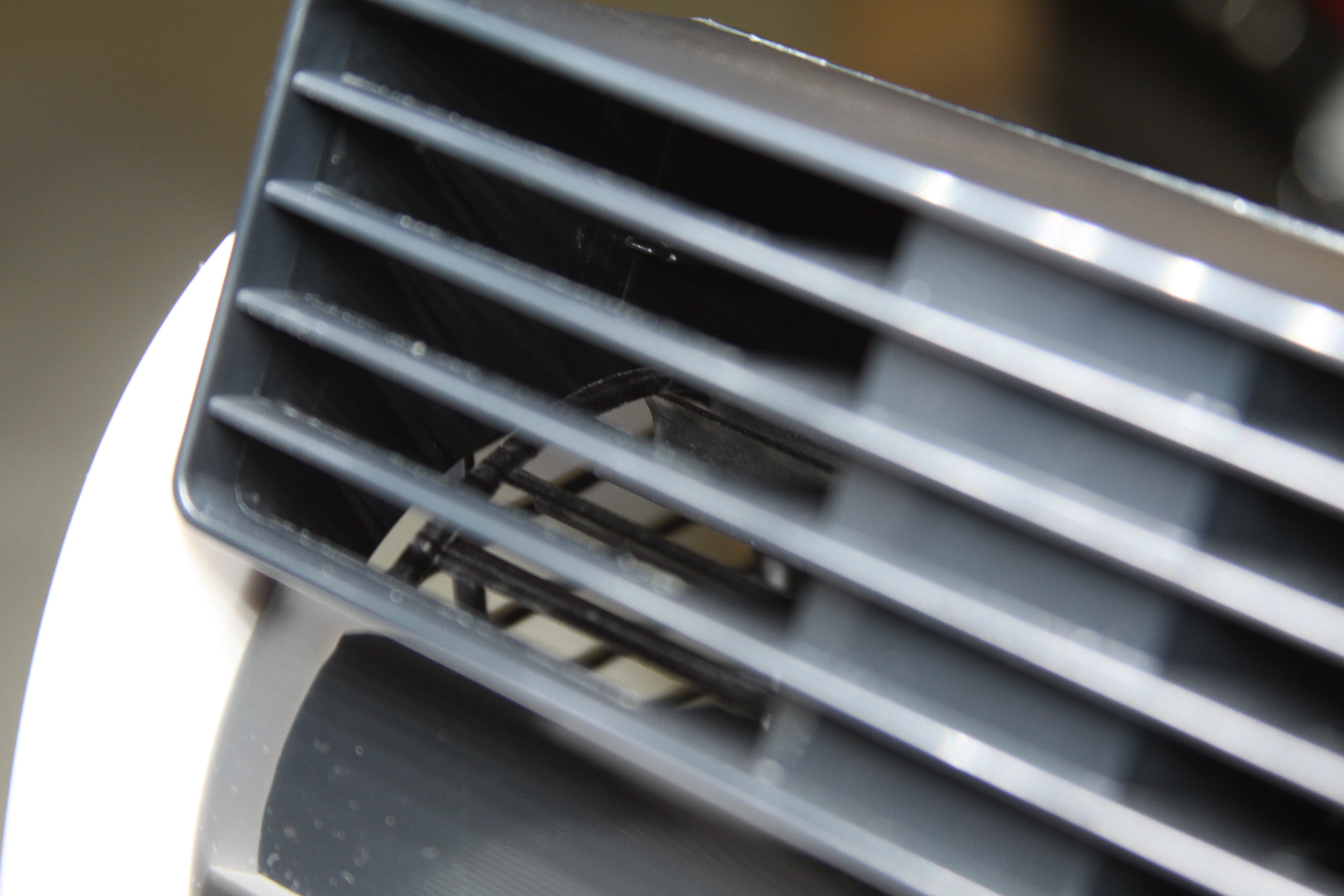 Sichler-branded household fan with centrifugal blades. This closeup shows that the blades are forward-curved.